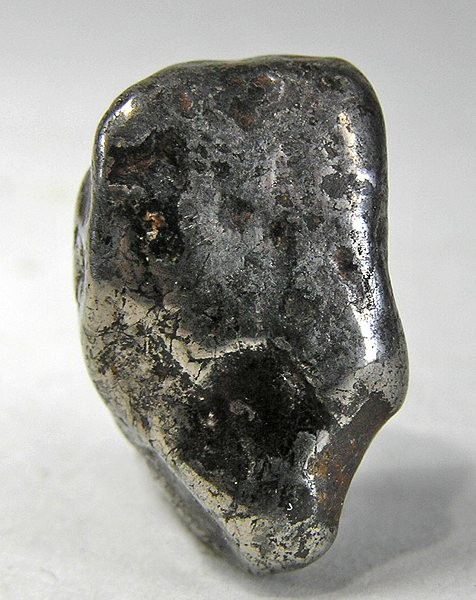 Awaruite Locality: Josephine Creek, Josephine Creek District, Josephine County, Oregon, USA (Locality at ) Size: 2.2 x 1.2 x 0.9 cm. Awaruite is a nickel-iron alloy-bearing rock named after its place of origin, Josephine County in southwestern Oregon. These awaruite pebbles occur as detritus in several streams that originate and flow across the Josephine Peridotite. This pebble/nugget weighs 13 grams. It was in the Millard Grobon collection, and after that in the collection of Gene Meieran.